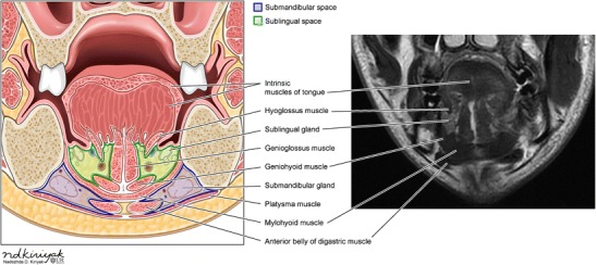 Anatomy of the submandibular space and sublingual space in the coronal plane: picture illustration and T2-weighted MR image